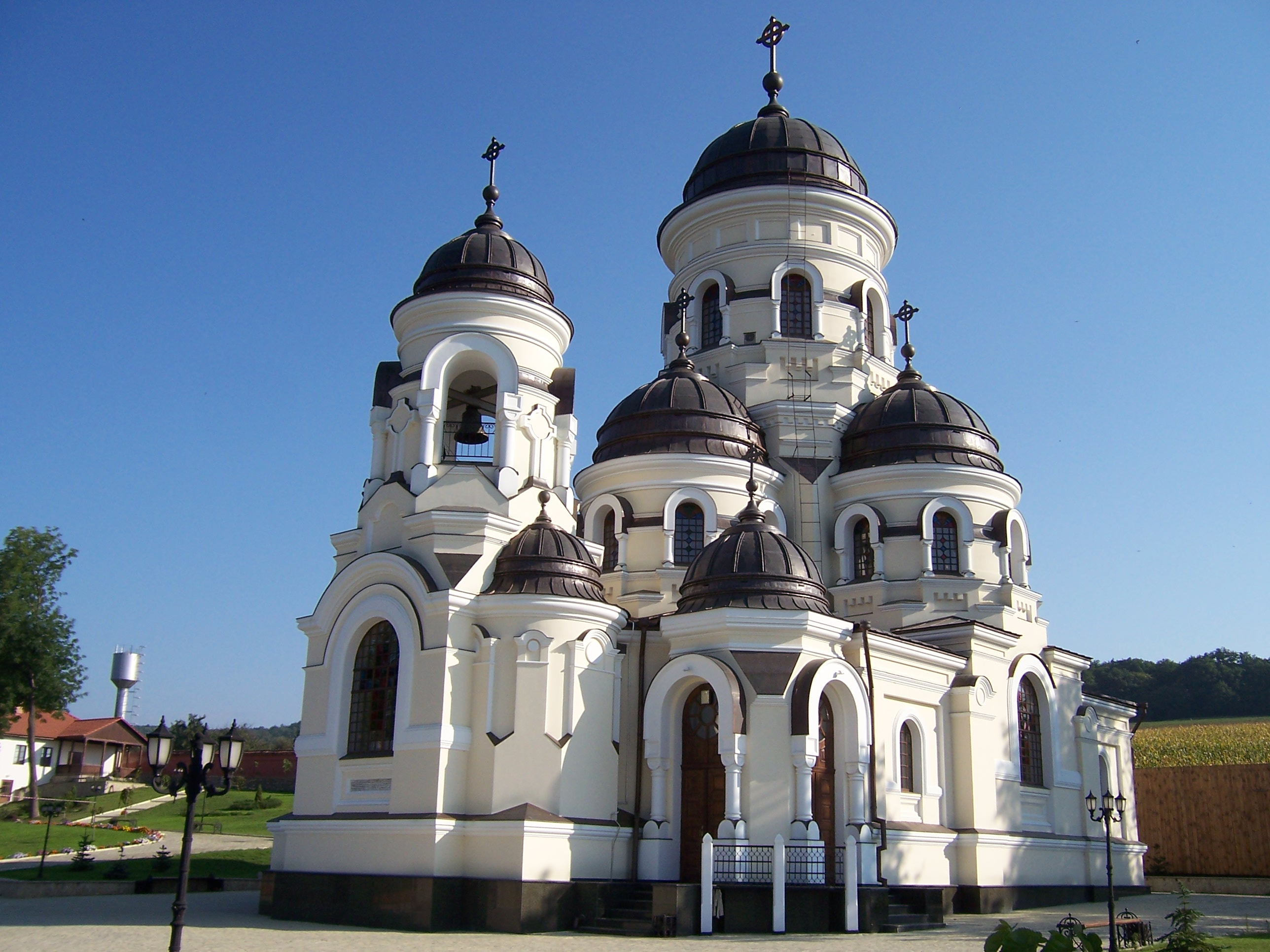 Illustration of Căpriana monastery